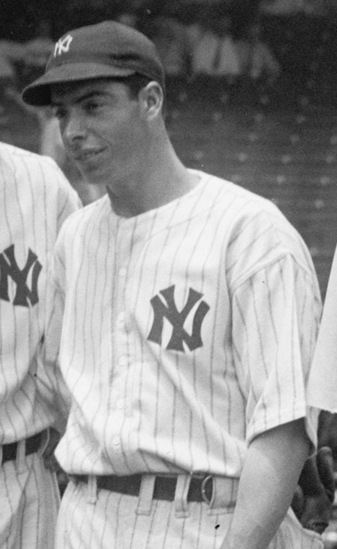 Cropped DiMaggio Image from Wikipedia